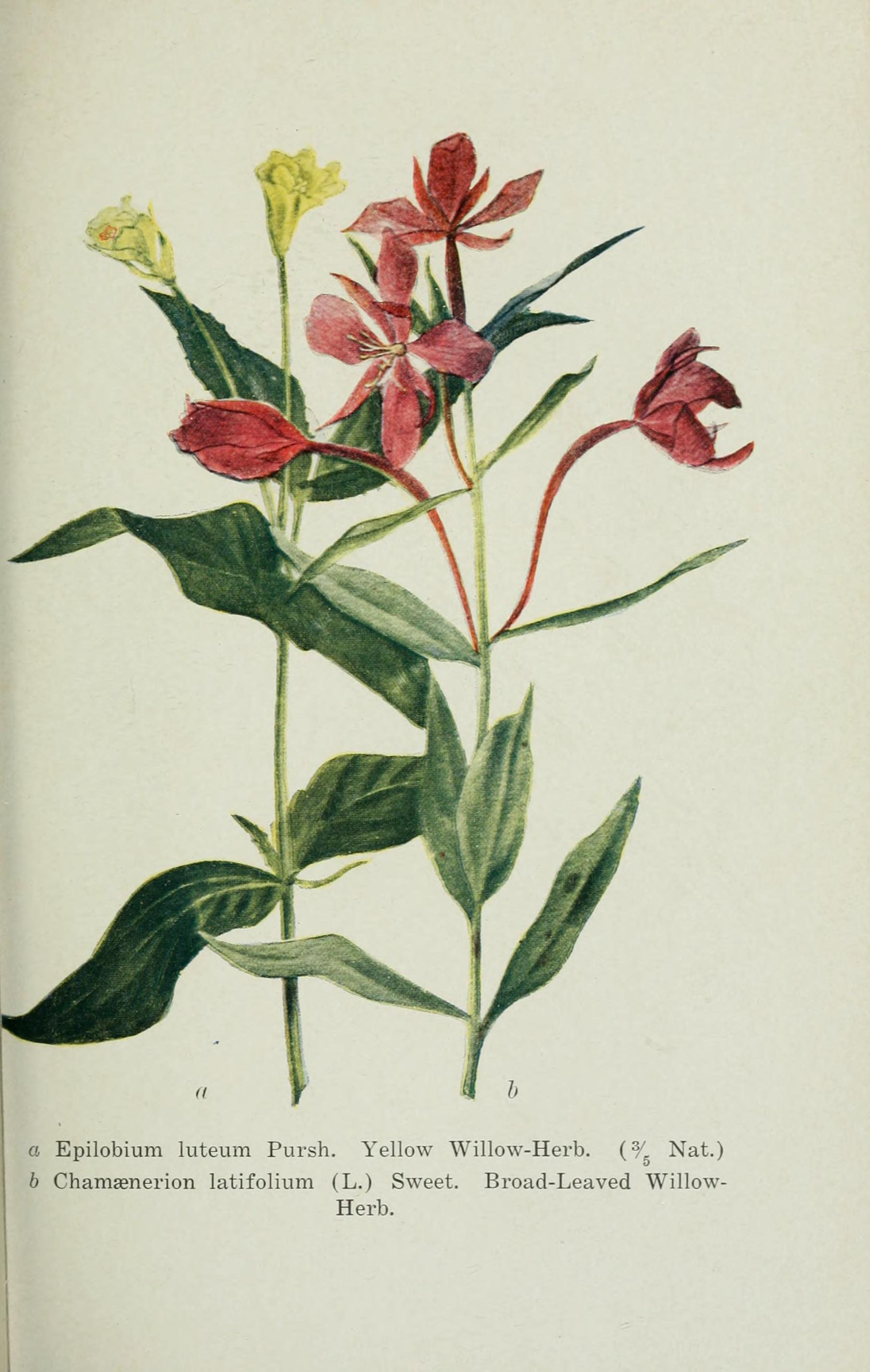 Title: Alpine flora of the Canadian Rocky Mountains Year: 1907 (1900s) Authors: Brown, Stewardson, 1867-1921 Subjects: Mountain plants; Botany Publisher: New York : G. P. Putnam Text Appearing Before Image: ' Text Appearing After Image: a Epilobium luteum Pursh. Yellow Willow-Herb. (3/ Nat.) b Chamaenerion latifolium (L.) Sweet. Broad-Leaved Willow- Herb.